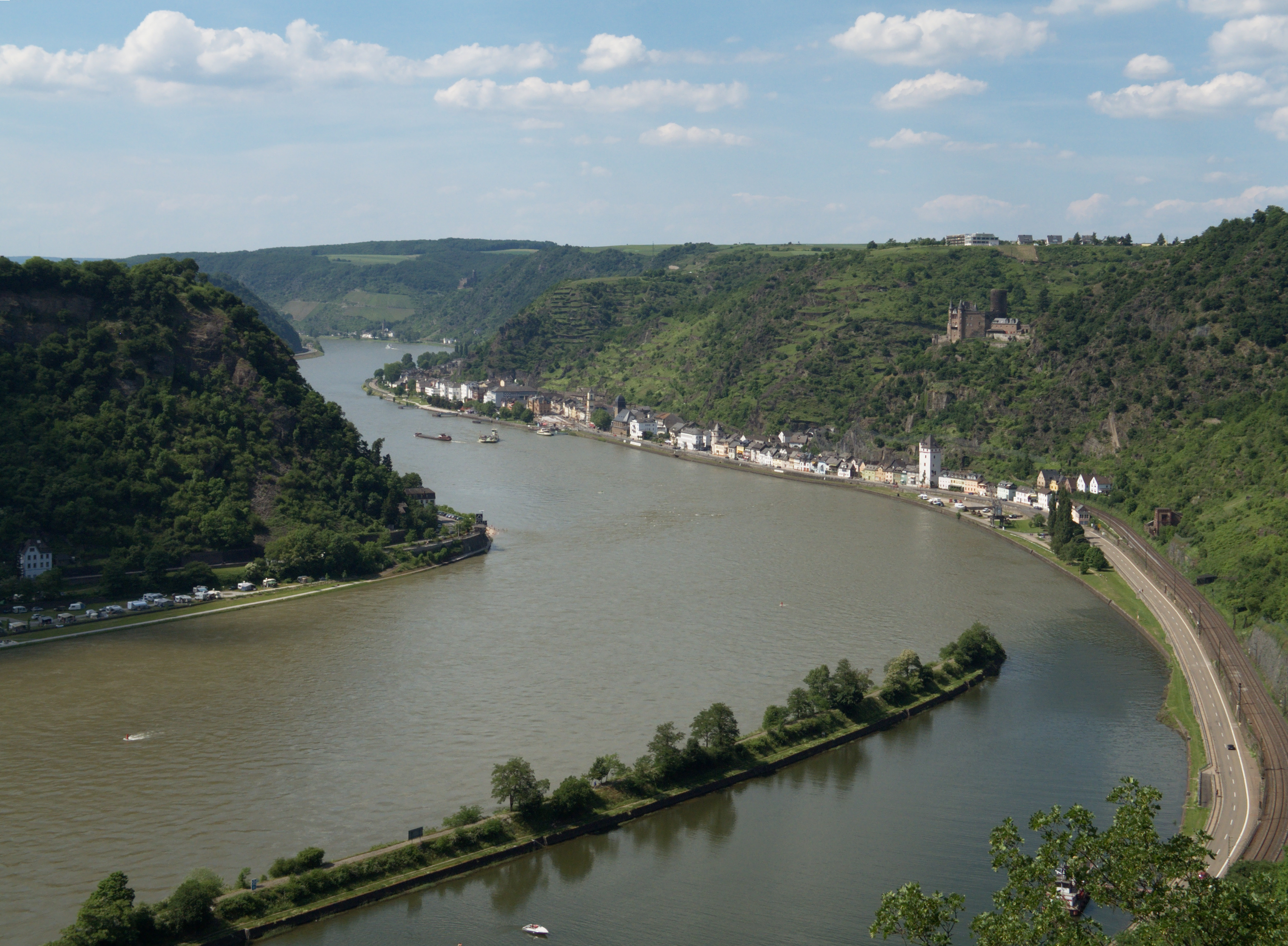 Rhine valley at Sankt Goarshausen, UNESCO World Heritage Site Upper Middle Rhine, Germany.